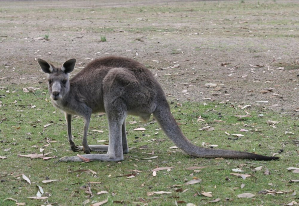 an Eastern gray kangaroo, Macropus giganteus, in Victoria, Australia.